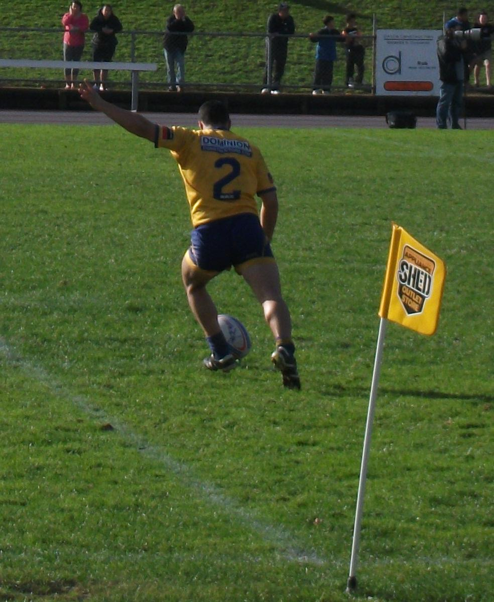 A Conversion attempt by the Mt Albert Lions winger in the Grand Final v Otahuhu on 28 August 2010